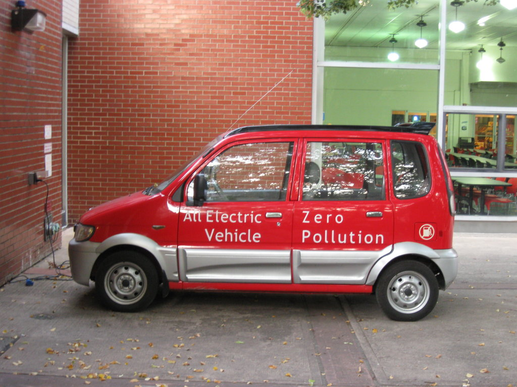 A Miles ZX40 Zero-emissions vehicle at CUNY Queens College, New York City.